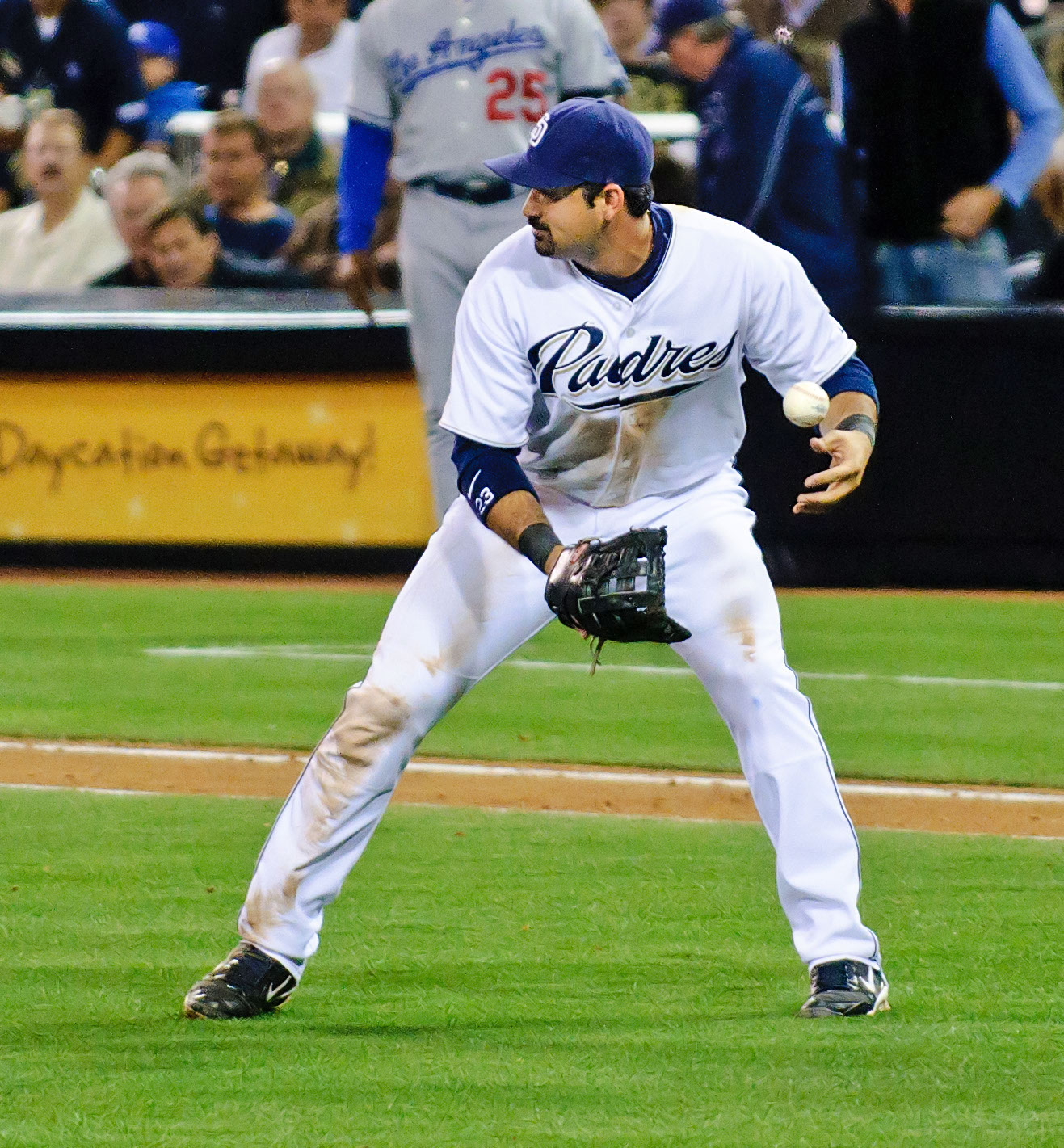 Adrian Gonzalez fields a ball against the Dodgers on July 27, 2010.